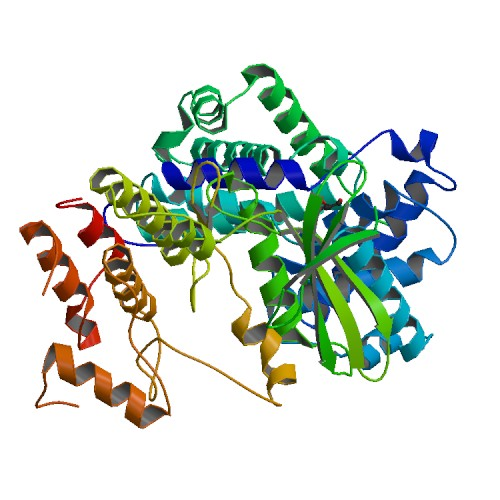 RCSB PDB Source